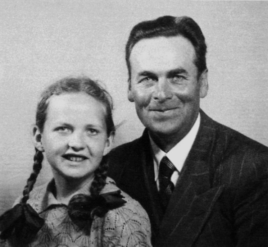 Photograph of the Finnish politician Yrjö Leino (1897–1961) with his daughter Lieko (1927–2017).